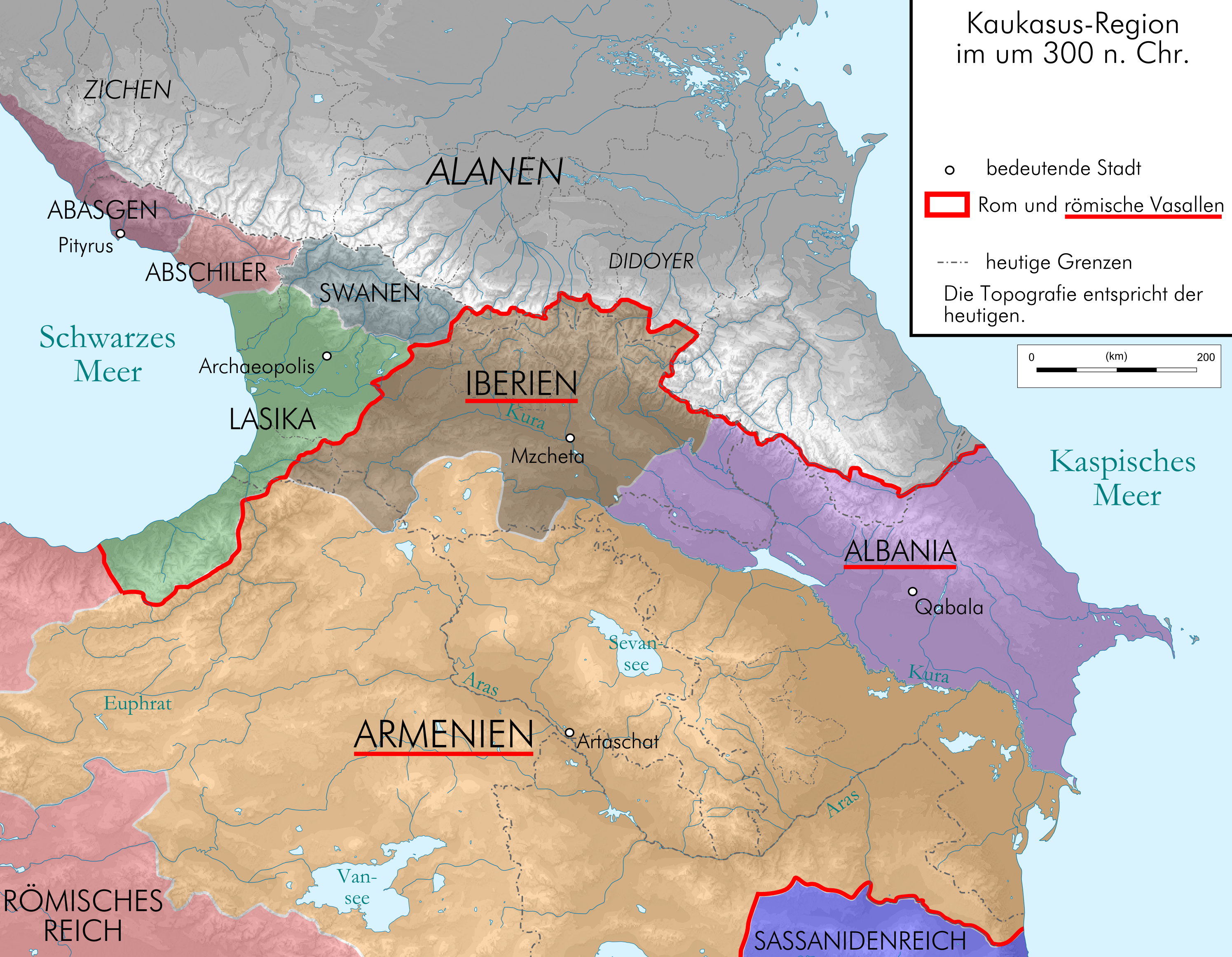 Map of Caucasus around 300 AC in German.